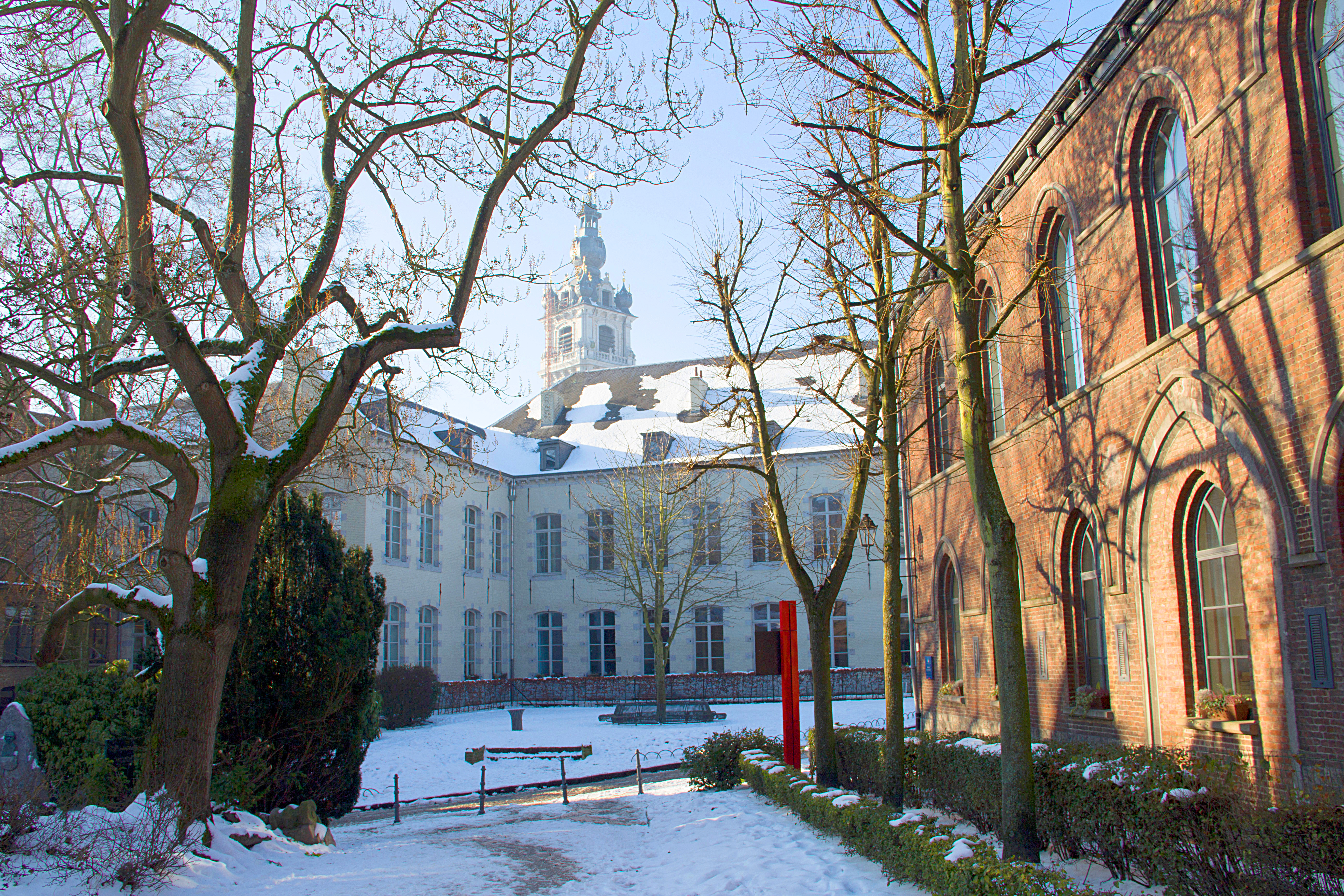 Mons (Belgium), the Jardin du Mayeur, the Hôtel de Gages and the Belfry.